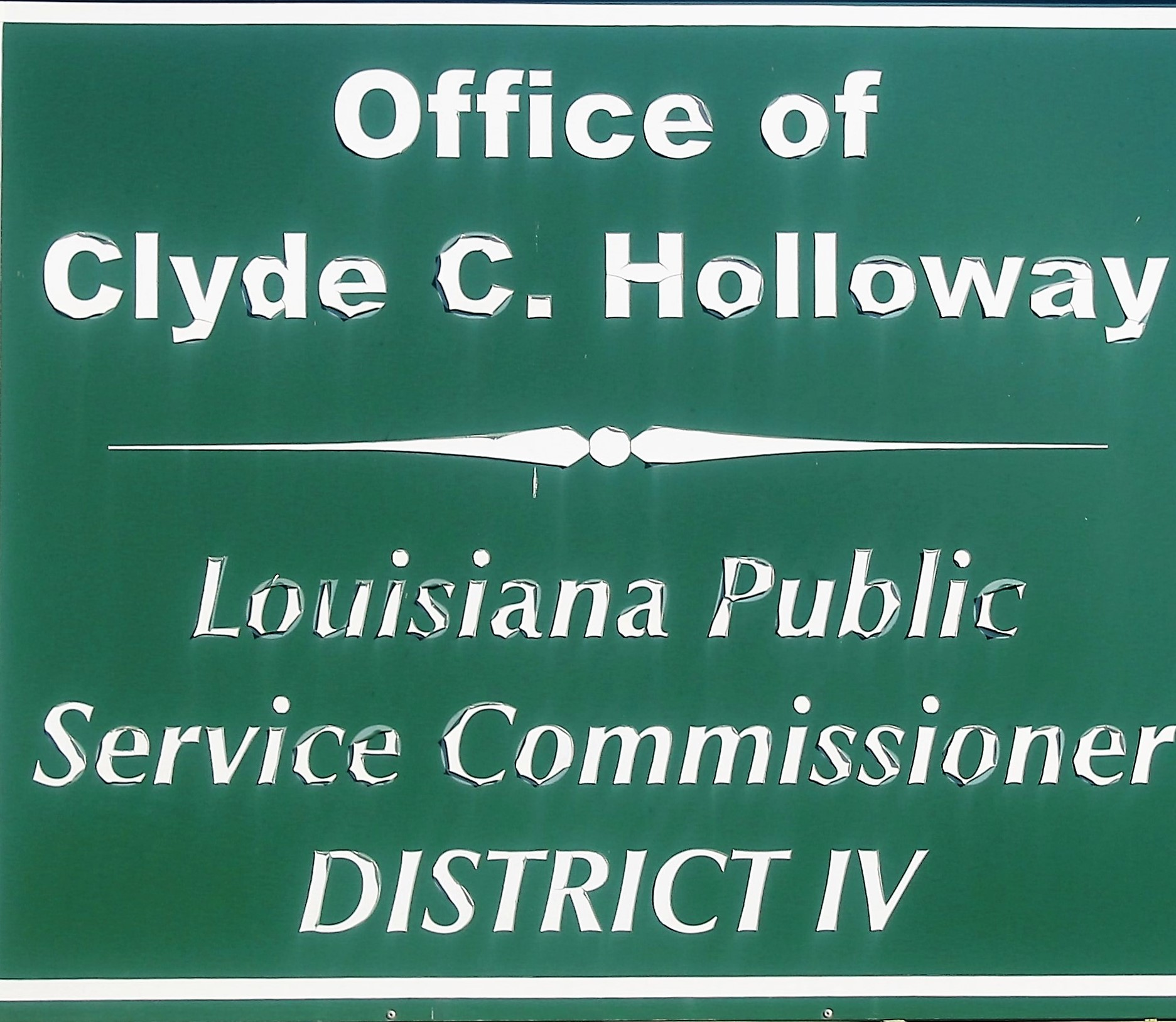 Office sign for the late Public Service Commissioner Clyde Holloway in Forest Hill, LA